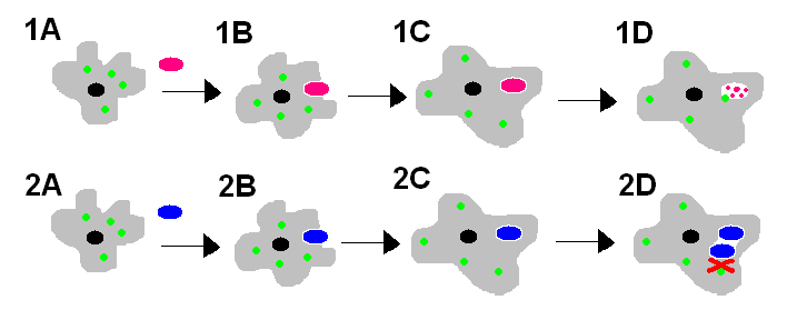 Phagocytosis of microbes by a macrophage and how certain intracellular pathogens inhibit the lysosomal fusion.